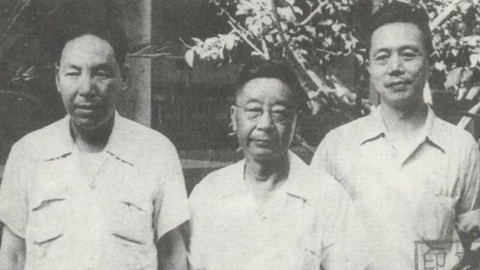 The photo of Zhao Shuli, Laoshe, and Yang Shuo